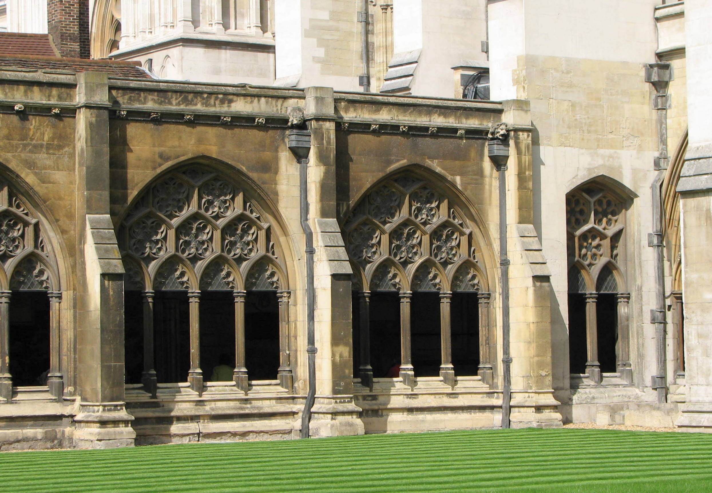 The cloister of Westminster Abbey, London, England